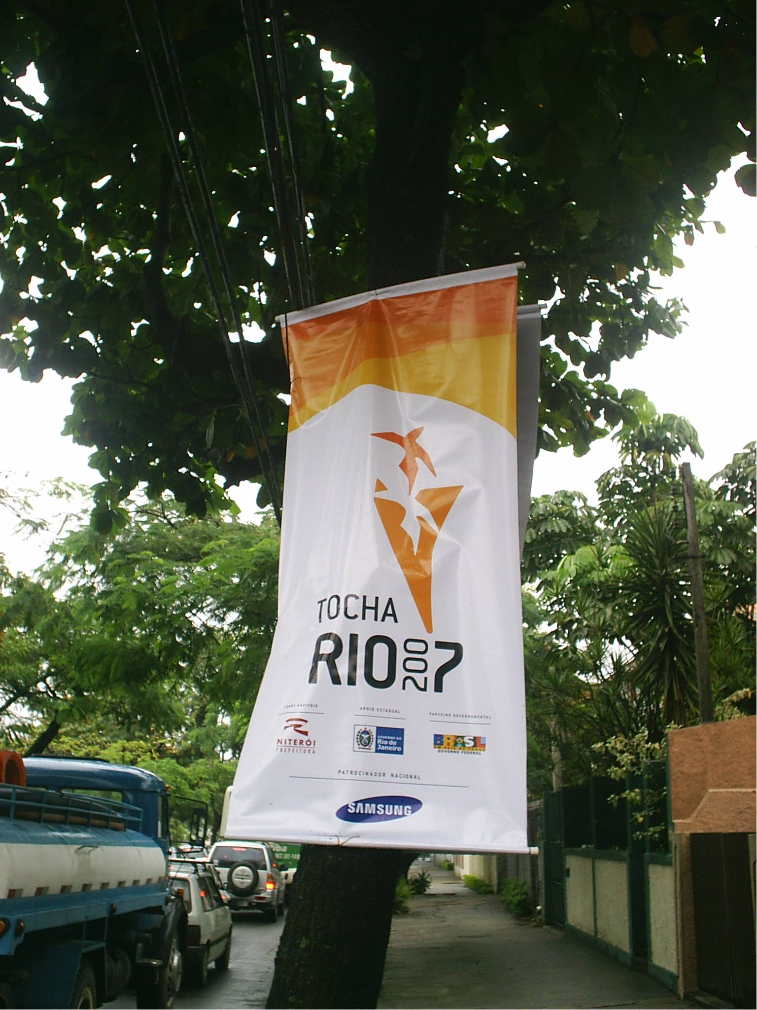 Banner on a tree in a town participating in the Torch relay leading up to the 2007 Pan-Am Games in Rio de Janeiro, Brazil.